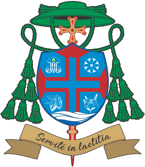 Brasão Episcopal de Dom Aldemiro Sena dos Santos.